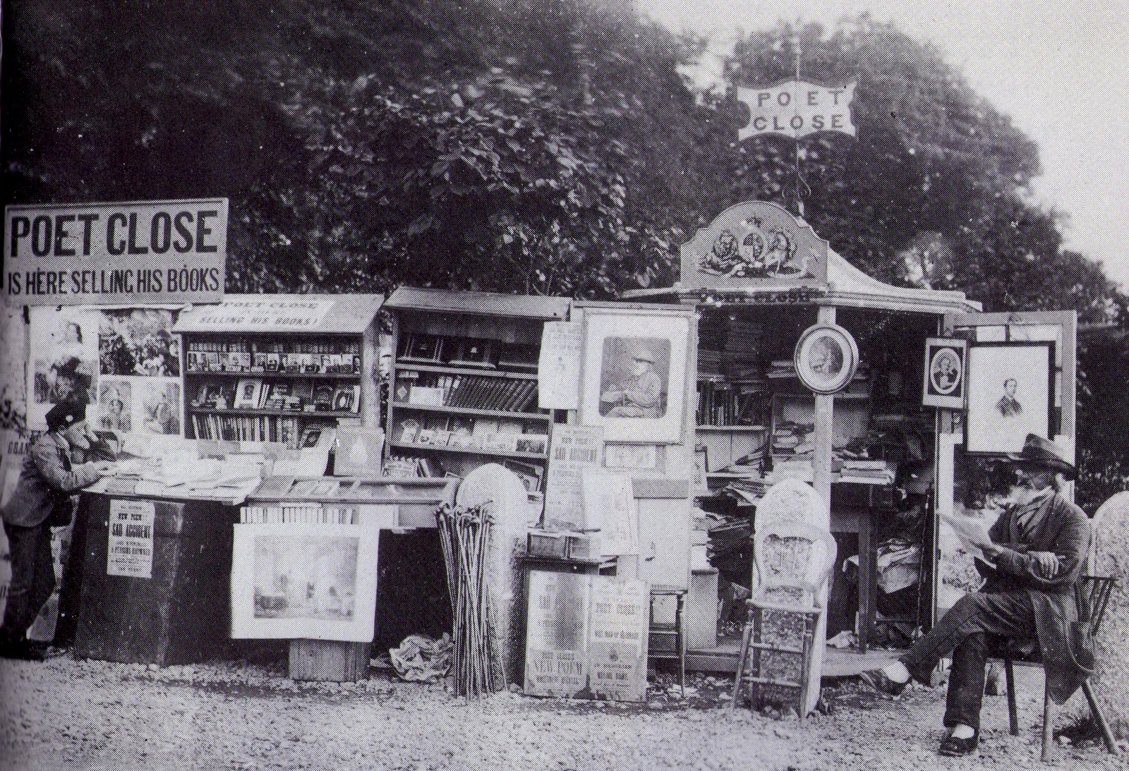 A photograph of Close in front of his Bowness bookstall on Windermere in 1875.